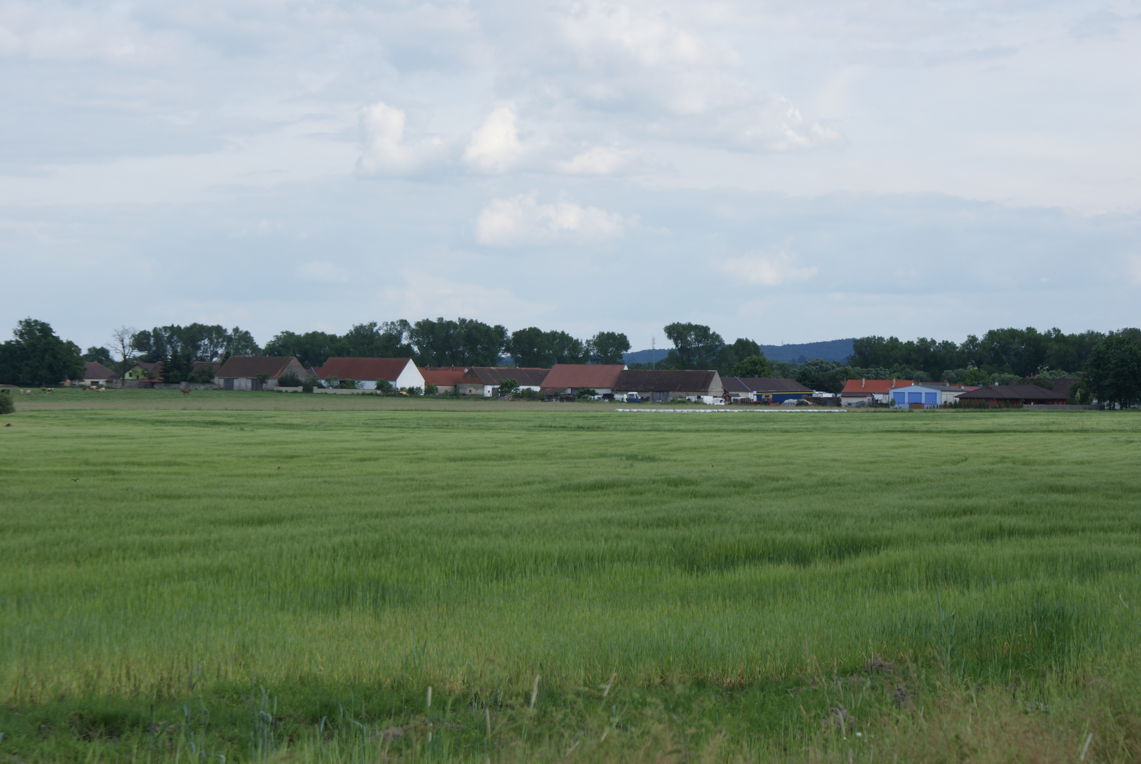 Krašlovice, a village in Strakonice district, Czech Republic, general view. Česky: Krašlovice, okres Strakonice, celkový pohled